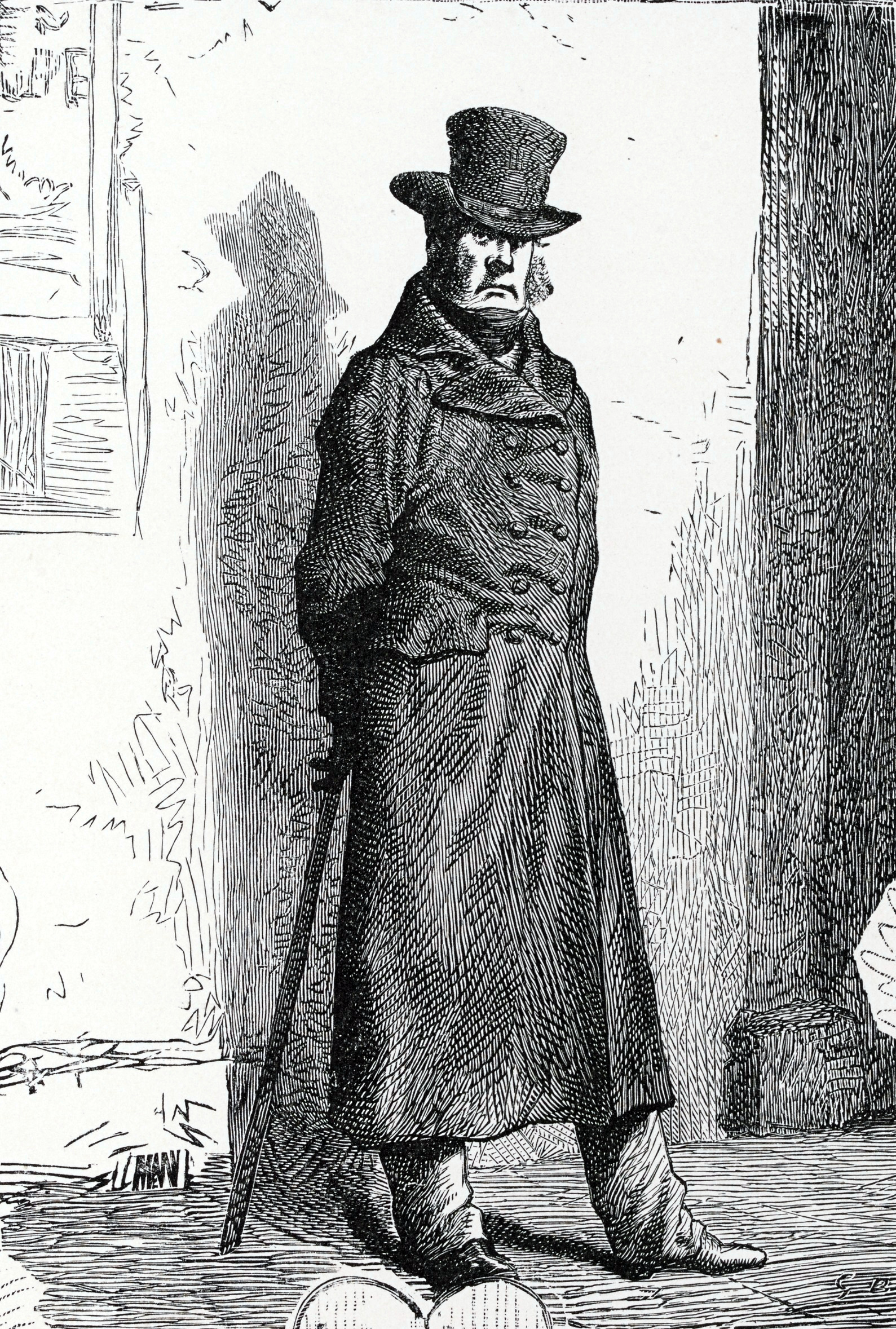 Gustave Brion, ‘’Javert’’, 1862, reproduced in Victor Hugo, Les Misérables (London, G. Routledge and Sons), 1887. Rare Books Collection, State Library of Victoria.